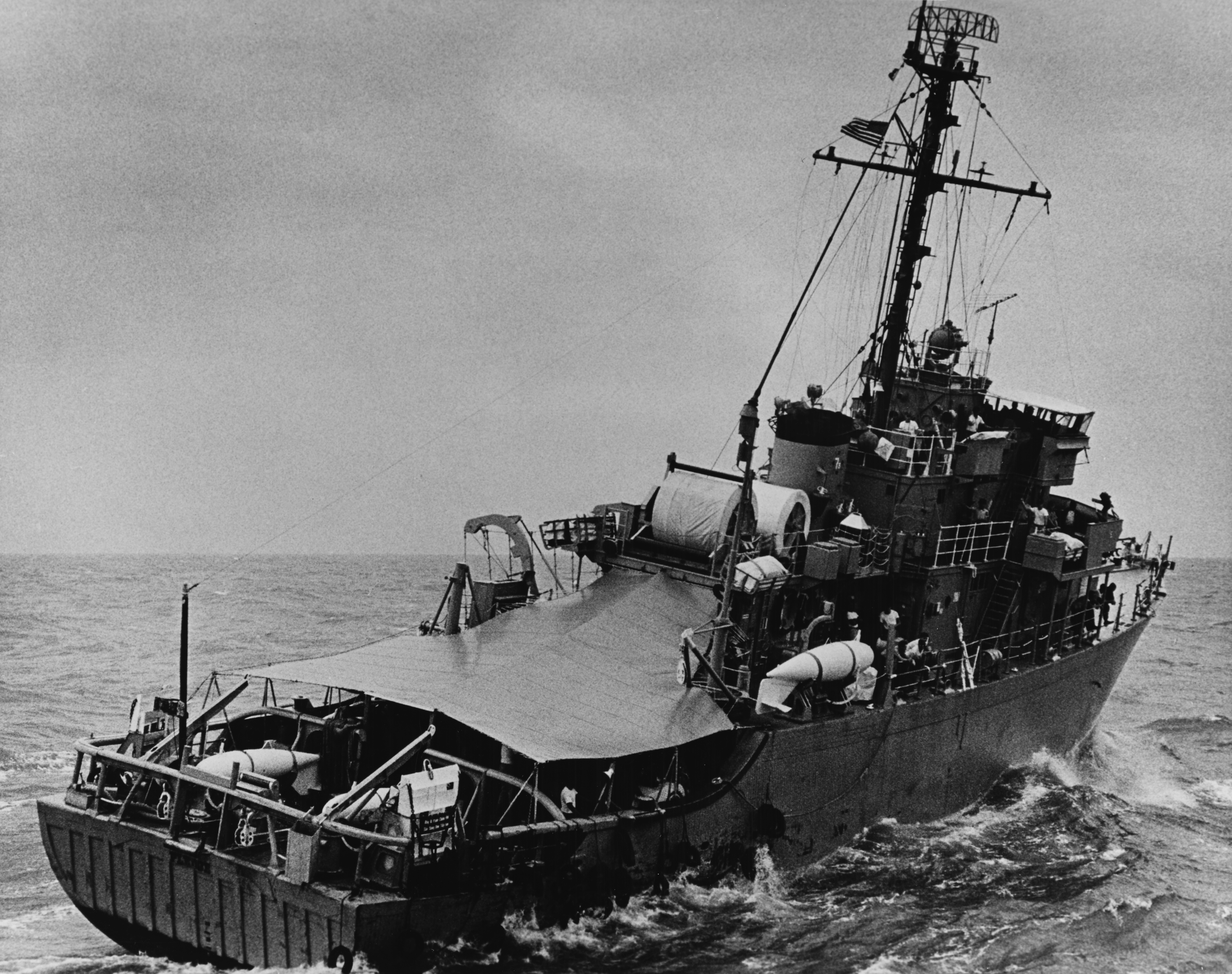 The U.S. Navy minesweeper USS Pledge (MSO-492) patrols the South China Sea coastline of the Republic of Vietnam as part of Operation Market Time, October 1967.